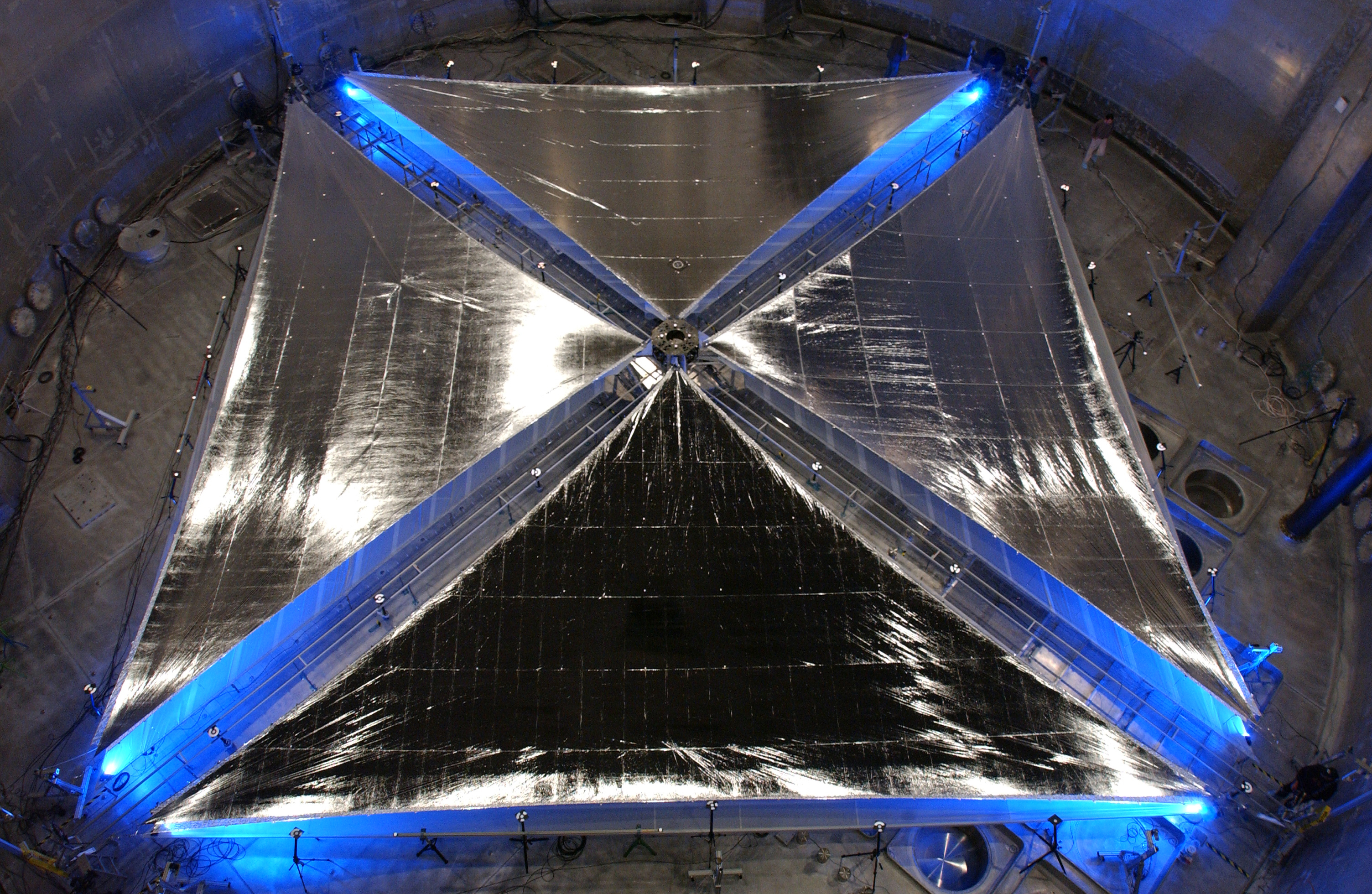 A 20-meter solar sail and boom system, developed by ATK Space Systems of Goleta, Calif., is fully deployed during testing at NASA Glenn Research Center's Plum Brook facility in Sandusky, Ohio. Blue lights positioned beneath the system help illuminate the four triangular sail quadrants as they lie outstretched in Plum Brook's Space Power Facility -- the world's largest space environment simulation chamber. The sail material is supported by a series of coilable booms, which are extended via remote control from a central stowage container about the size of a suitcase, and is made of an aluminized, plastic-membrane material called CP-1. The material is produced under license by SRS Technologies of Huntsville, Ala. The deployment, part of a series of tests in April, is a critical milestone in the development of solar sail propulsion technology that could lead to more ambitious inner Solar System robotic exploration.